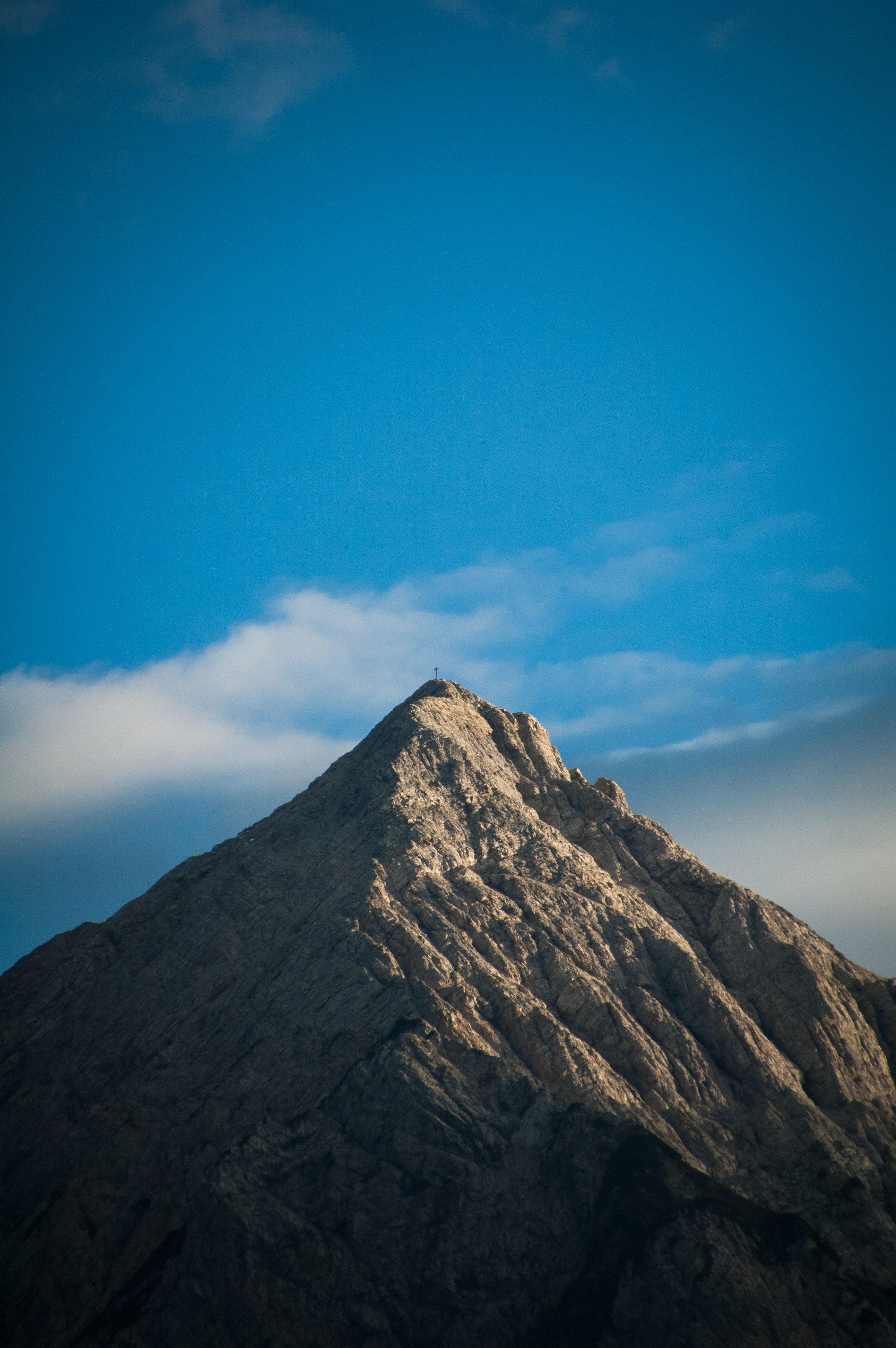 View on the Gailtaler Polinik. Taken in Kötschach-Mauthen.